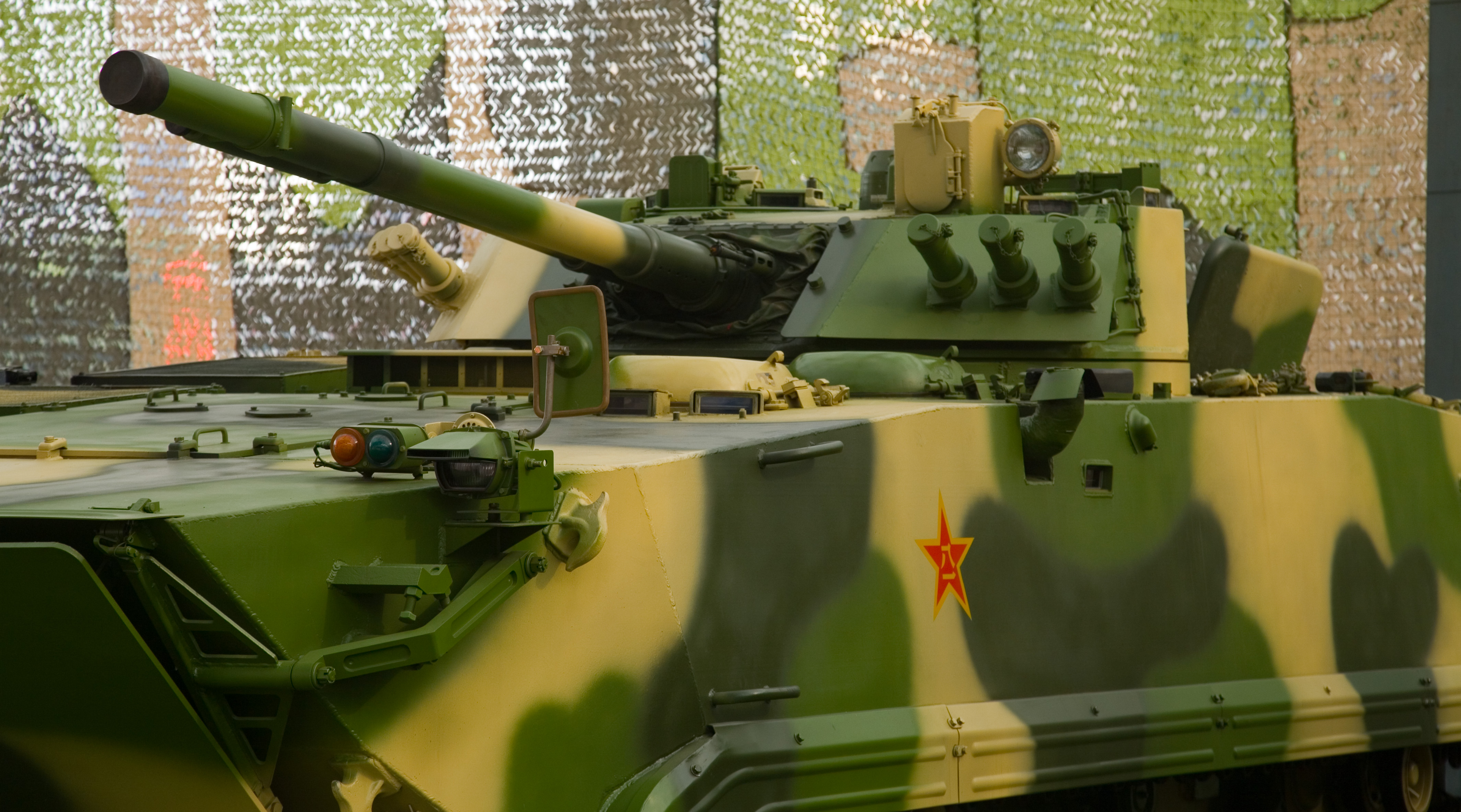 A Chinese ZBD-04 IFV. Detail of the turret. Note the small calibre machine gun next to the 100 mm cannon. It is on display at the Beijing Military Museum at the "Our Troops Towards the Sun" exhibition in Beijing.